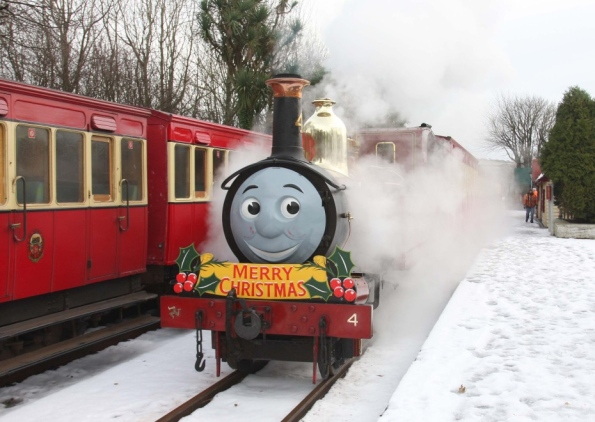 Santa train at Santon Station on the Isle of Man.